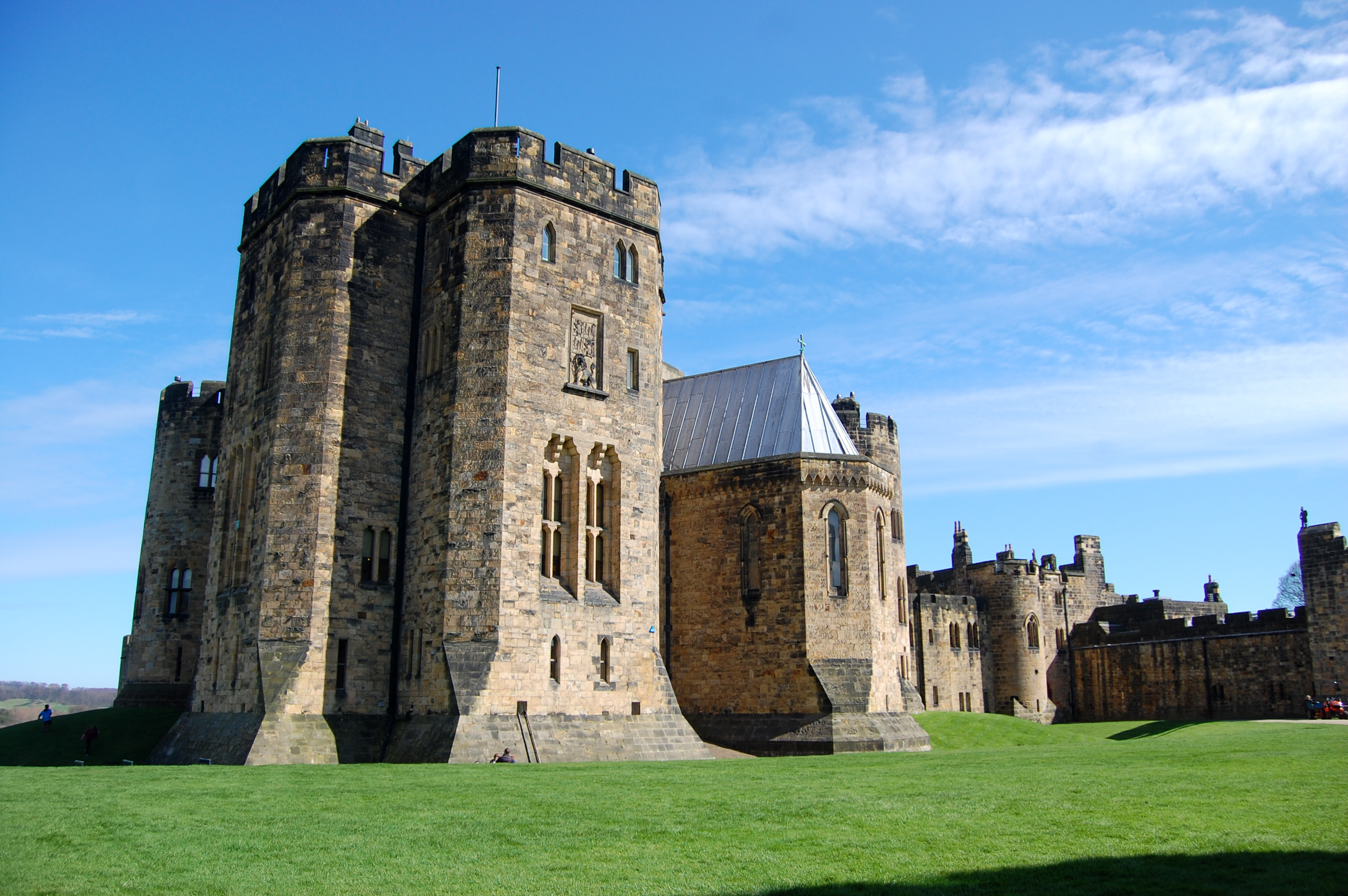 Alnwick Castle - staterooms